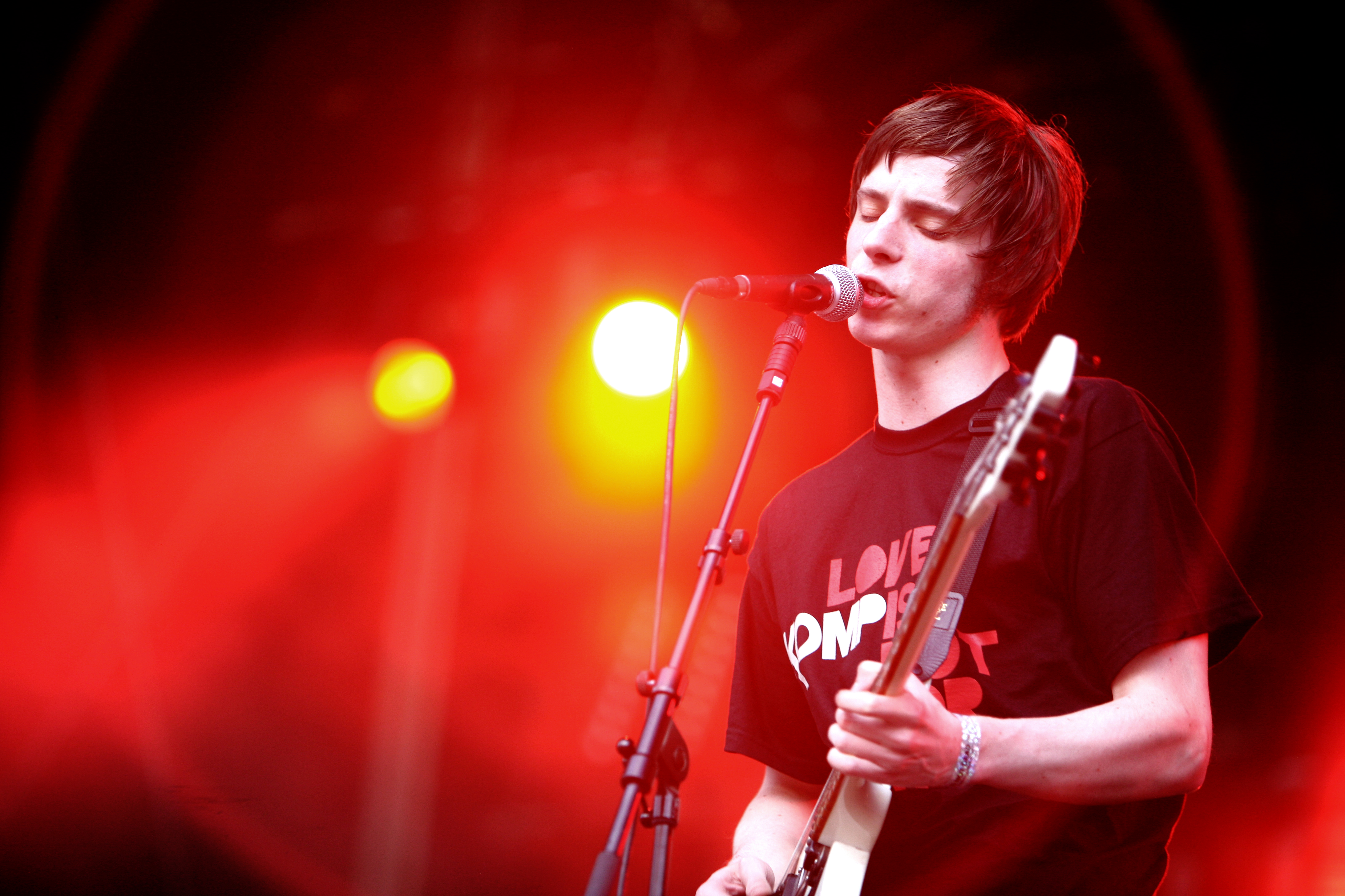 120 Days at Route du Rock, August 2007